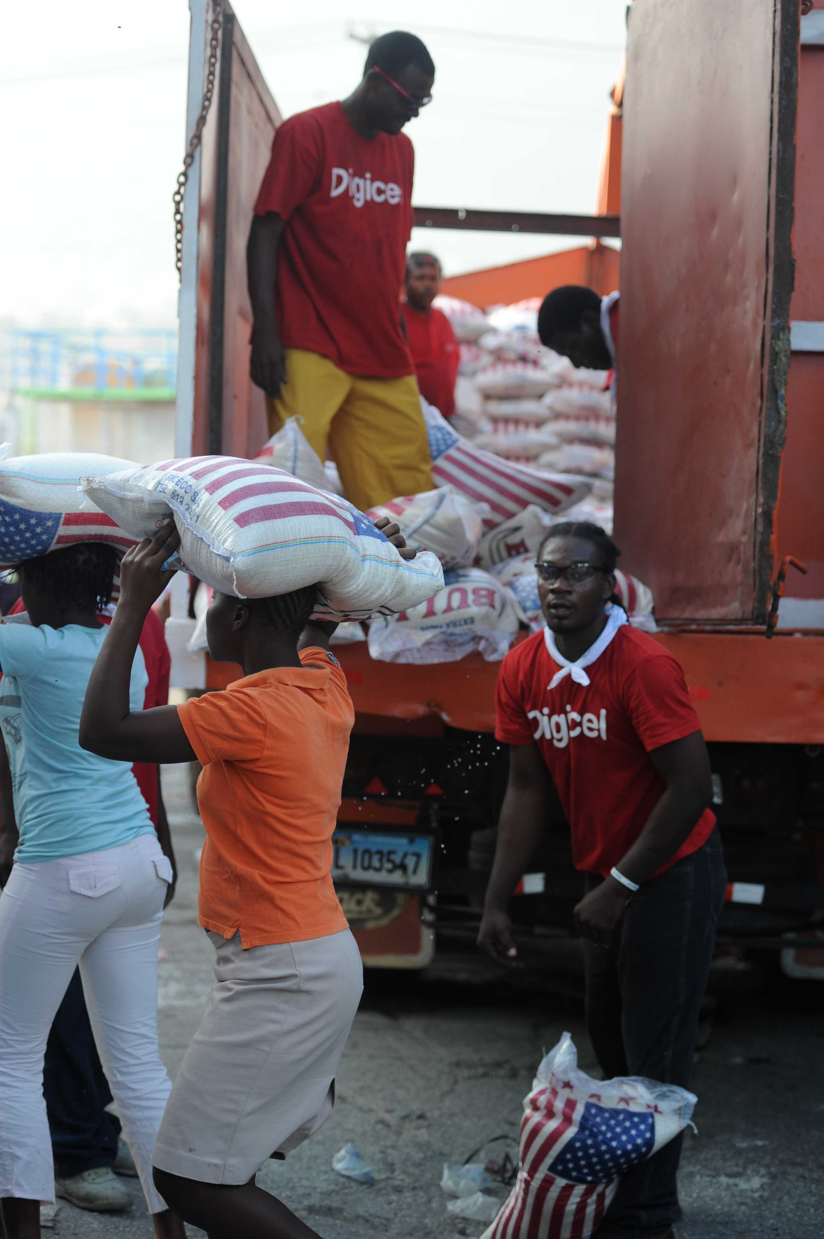 Volunteers from Digicel distribute several tons of food sponsored by the Agency for Technical Corporation and Development, an organization that sent food to earthquake survivors along the devastated streets of Port-au-Prince, Haiti, Feb. 3, 2010.